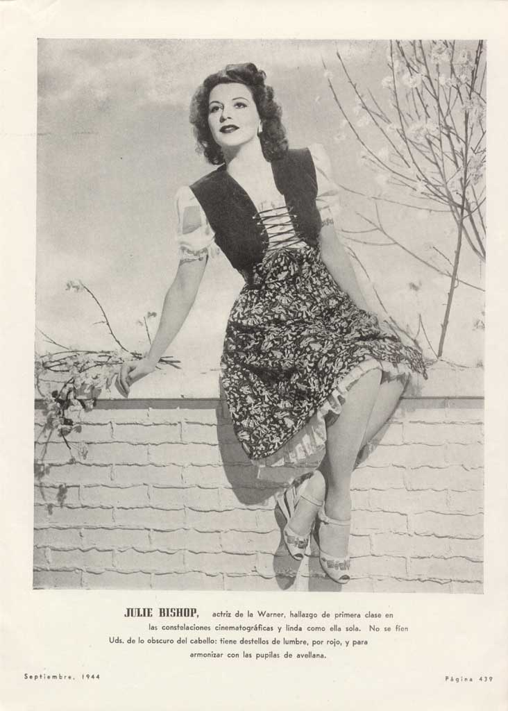 Publicity photo of Julie Bishop for Argentinean Magazine. (Printed in USA)